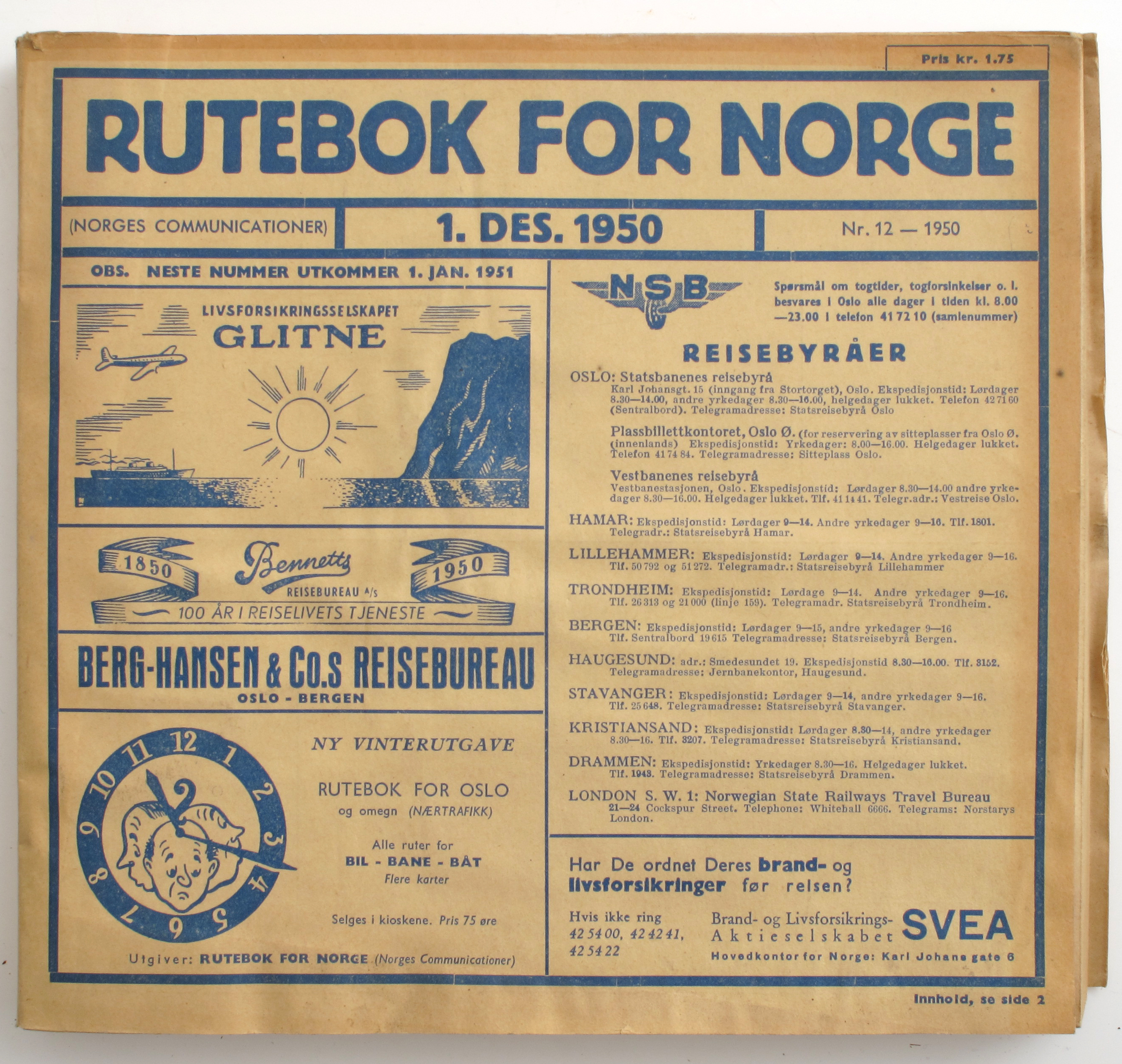 Rutebok for Norge 1950